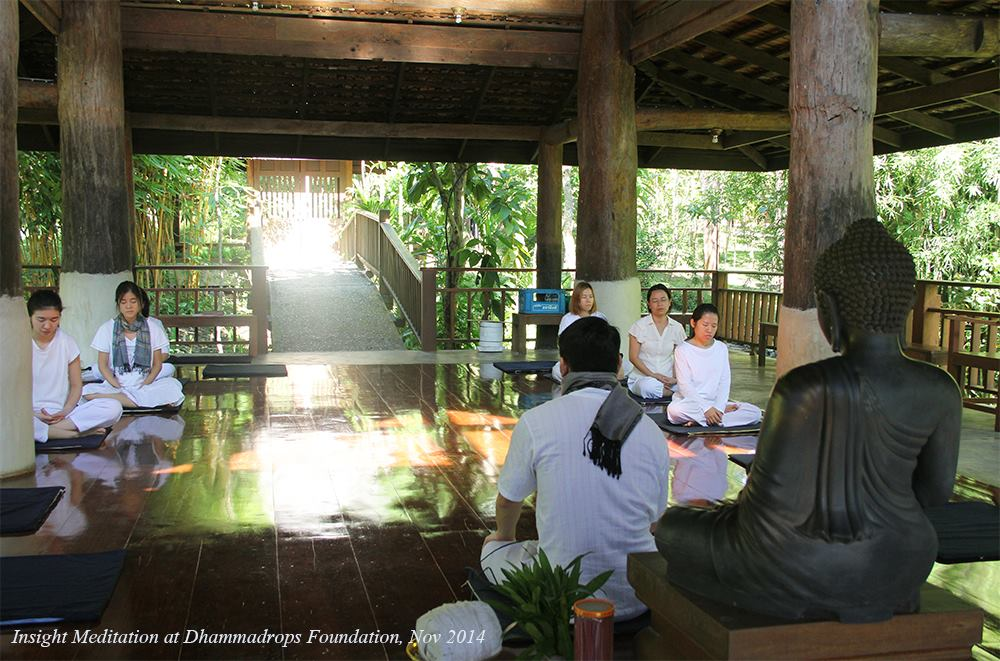 Insight Meditation Practice